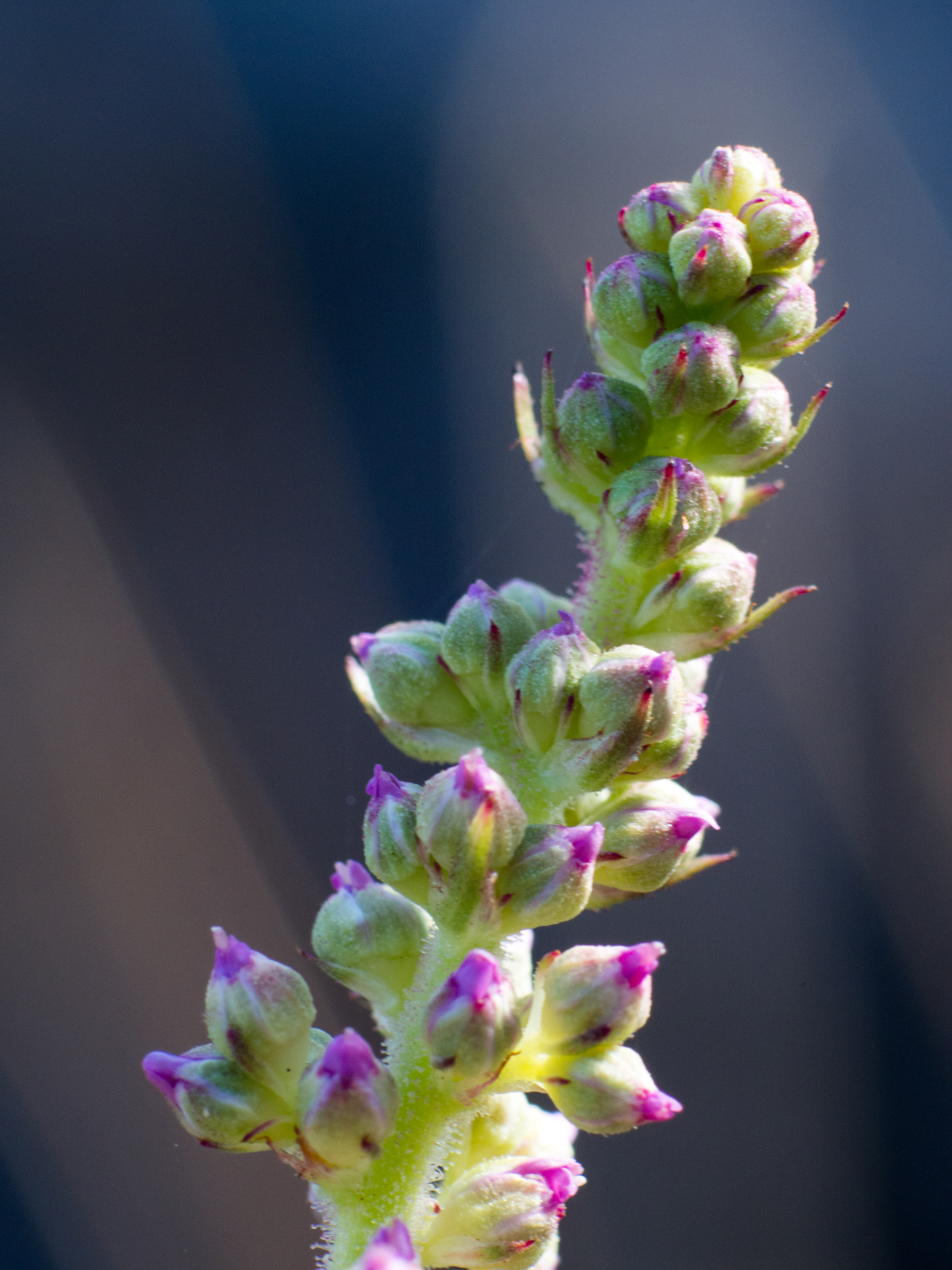 A. microphylla in Giardino Botanico Viote (Trento, Italy)